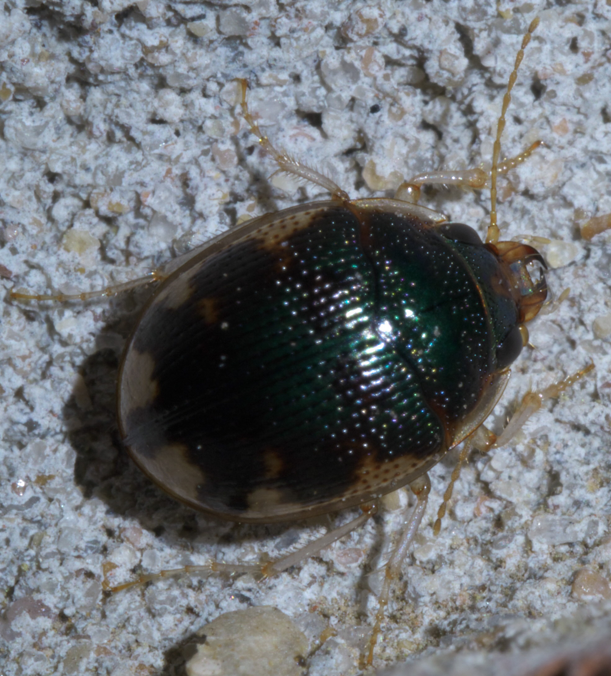 Omophron nitidum, Shiny Round Sand Beetle, Size: 5.3 mm, ID Confidence: 98